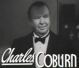 Cropped screenshot of Charles Coburn from the trailer for the film Rhapsody in Blue (1945).